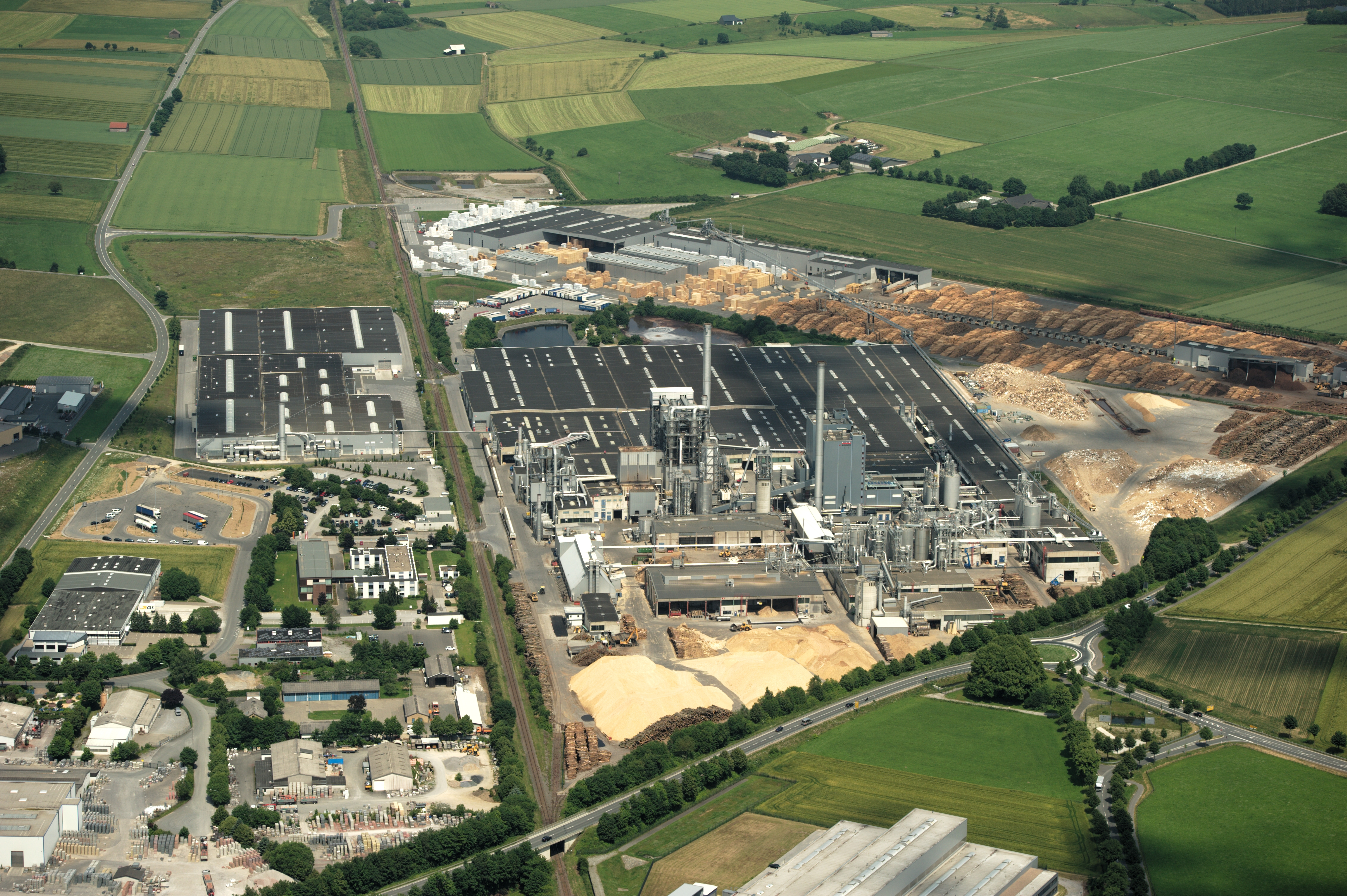 Fotoflug Sauerland-Ost - Brilon, Egger-Holzwerkstoffe The making of this document was supported by the Community-Budget of Wikimedia Germany.